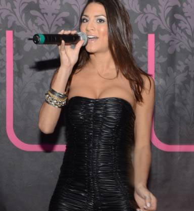 Kristina Maria performs at her LA showcase, Luxy Club